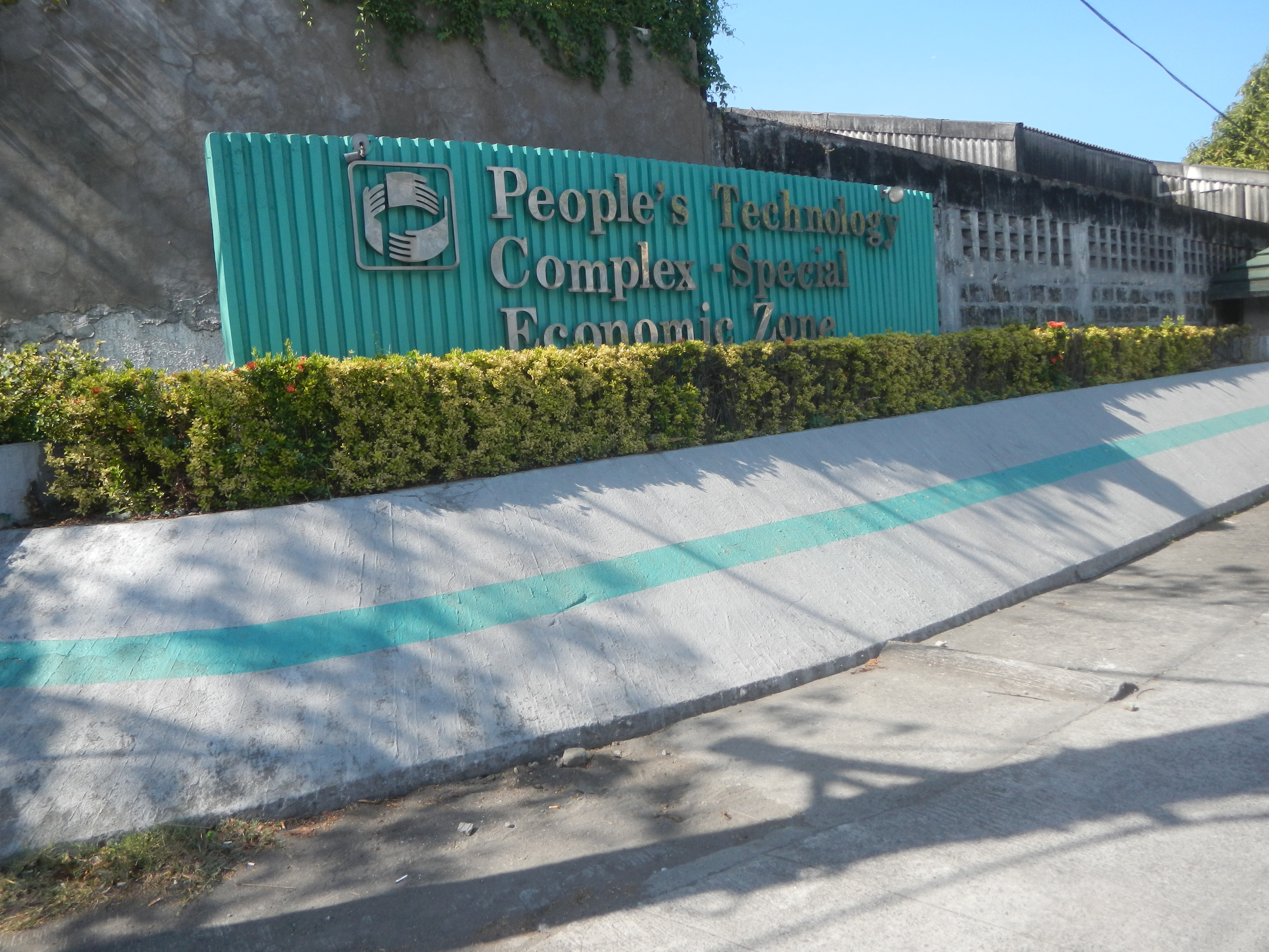 Carmona Hospital & Medical Center Cabilang Baybay People's Technology Complex - Special Economic Zone Walter Mart Carmona - Remington Plaza Governors Drive 14°19'32"N 121°3'57"E Governor's Drive Barangays Cabilang Baybay, Carmona Maduya Maduya 14°18'47"N 121°3'51"E to San Jose – Poblacion 3, J.M. Loyola – Poblacion 4, J.M. Loyola – Poblacion 5, Magallanes – Poblacion 6 & Magallanes – Poblacion 7, Carmona, Cavite Carmona, Cavite San Jose 14°19'40"N 121°2'11"E J.M. Loyola 14°18'39"N 121°3'3"E Cabilang Baybay 14°18'54"N 121°3'8"E (Note: Judge Florentino Floro, the owner, to repeat, Donor Florentino Floro of all these photos hereby donate gratuitously, freely and unconditionally Judge Floro all these photos to and for Wikimedia Commons, exclusively, for public use of the public domain, and again without any condition whatsoever).